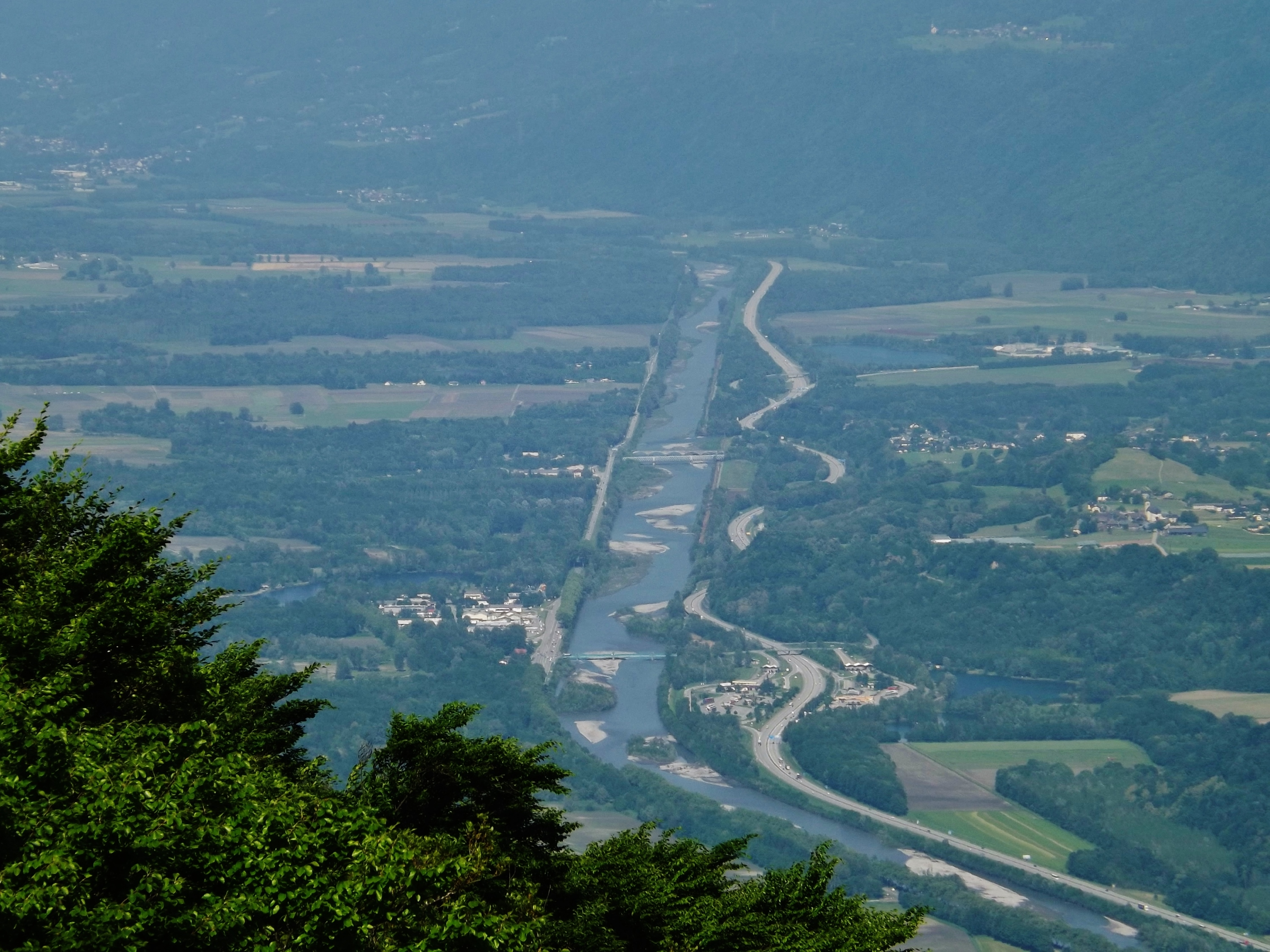 Aerian sight, from the Southern side of the Bauges mountains, of the river Isère and the motorways A43 (foreground) and next A430, in Savoie.